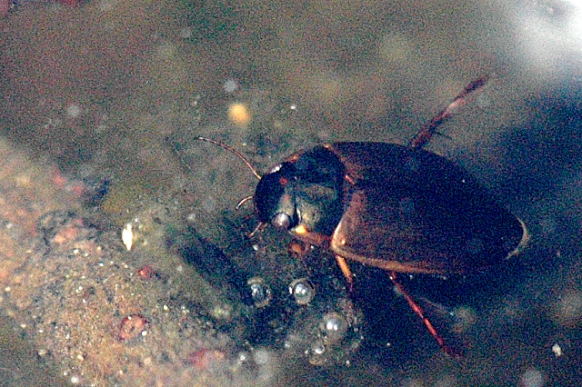 Picture taken in Commanster, Belgian High Ardennes . Please contact James Lindsey when you think this is a different taxon. James Lindsey, the copyright holder of this work, hereby publishes it under the following licenses: Attribution: James Lindsey at Ecology of Commanster